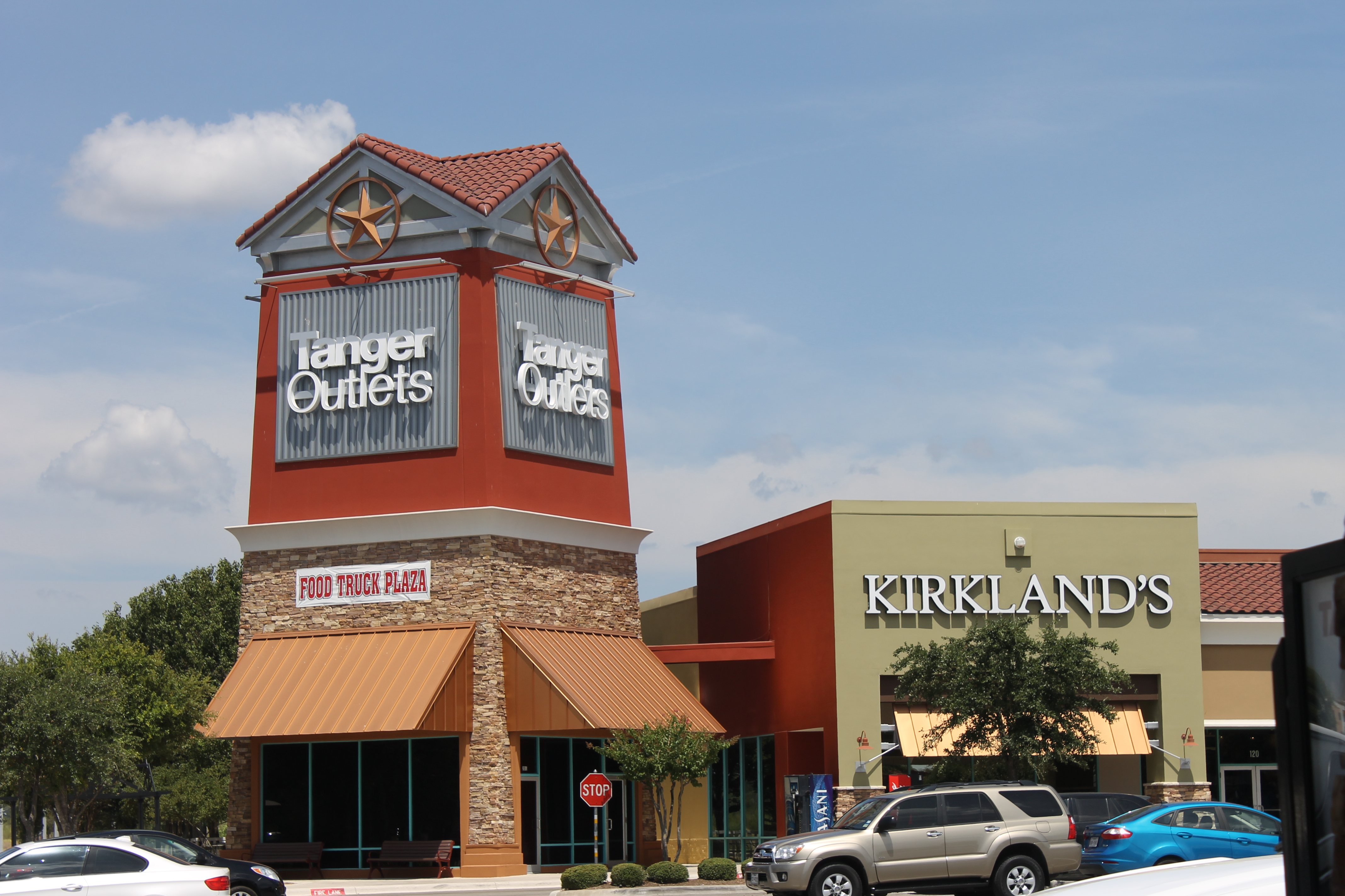 I took photo of Tanger Outlets in San Marcos, TX.